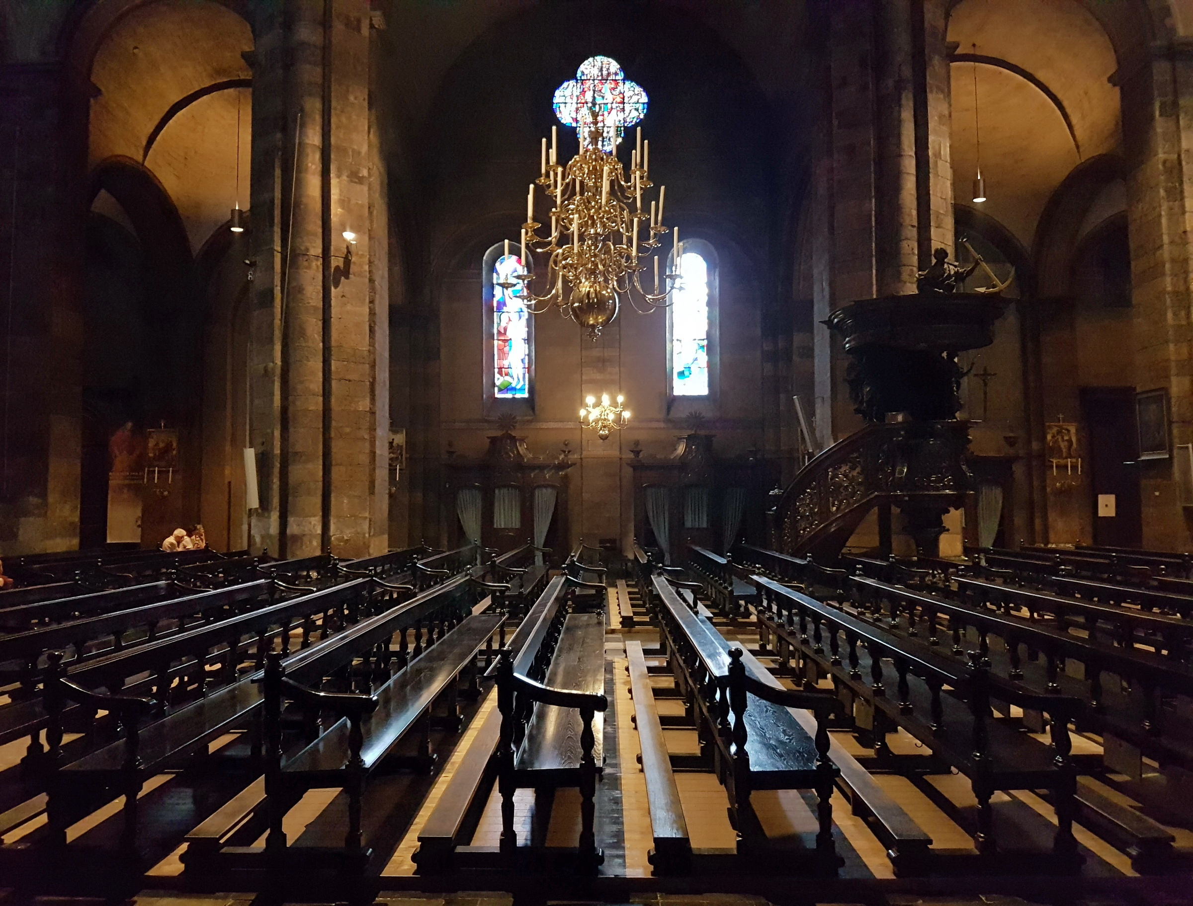 View towards the north of the nave of the Basilica of Our Lady in Maastricht, the Netherlands.